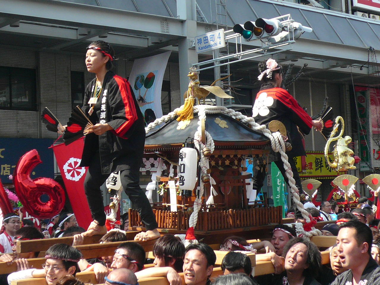 A picture from the Dosan Festival in Gifu, Gifu Prefecture.